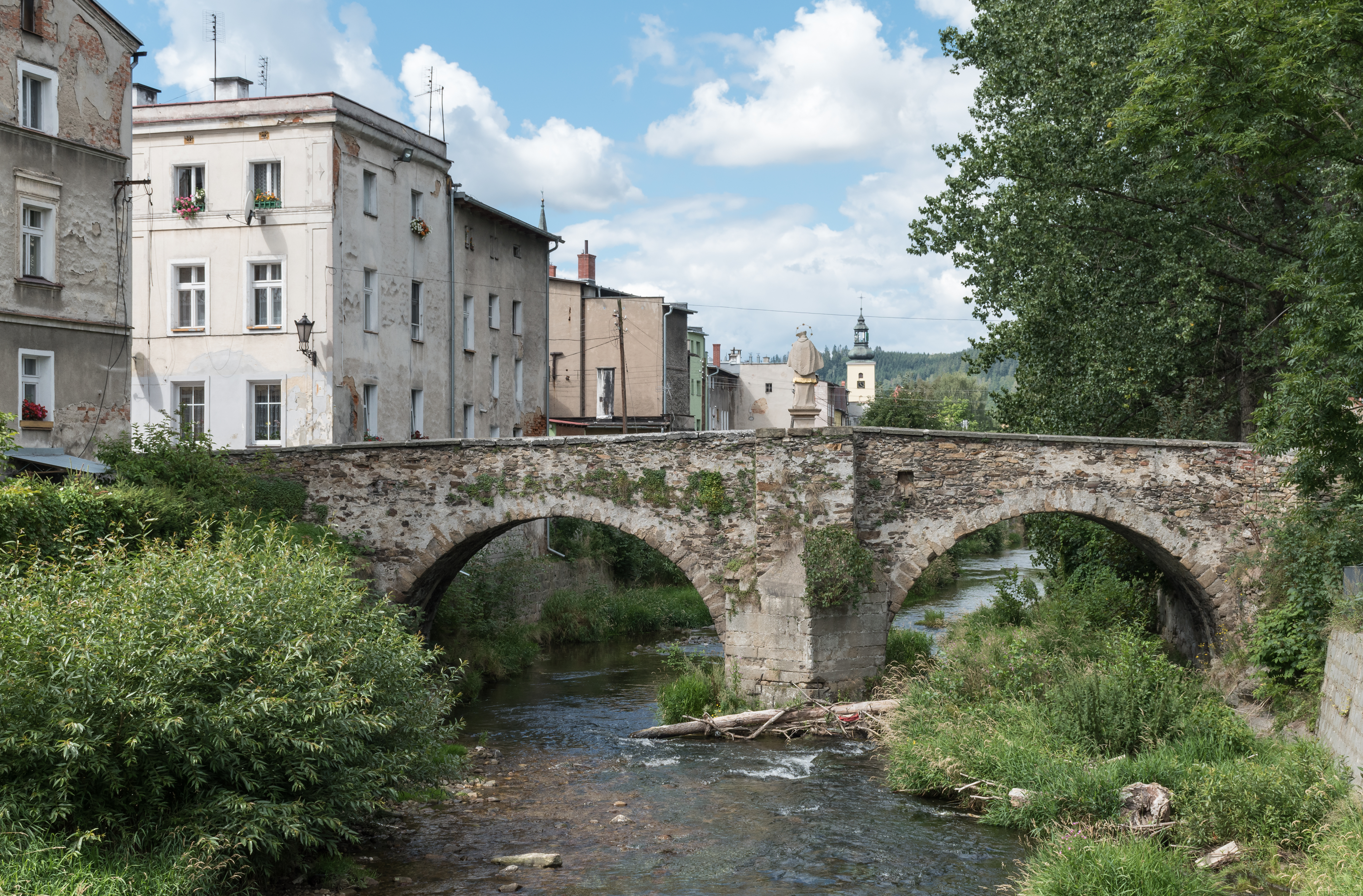 Gothic Bridge in Lądek-Zdrój